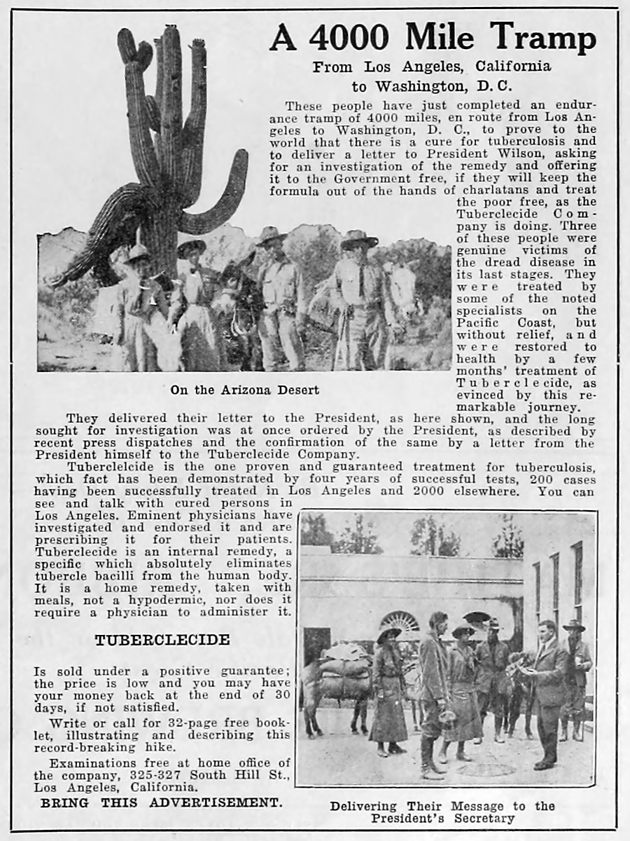 Advertisement for Tuberclecide appearing in the April 1914 issue of The Grizzly Bear, promoting the tuberculosis "cure" by claiming involvement with the U.S. Government.